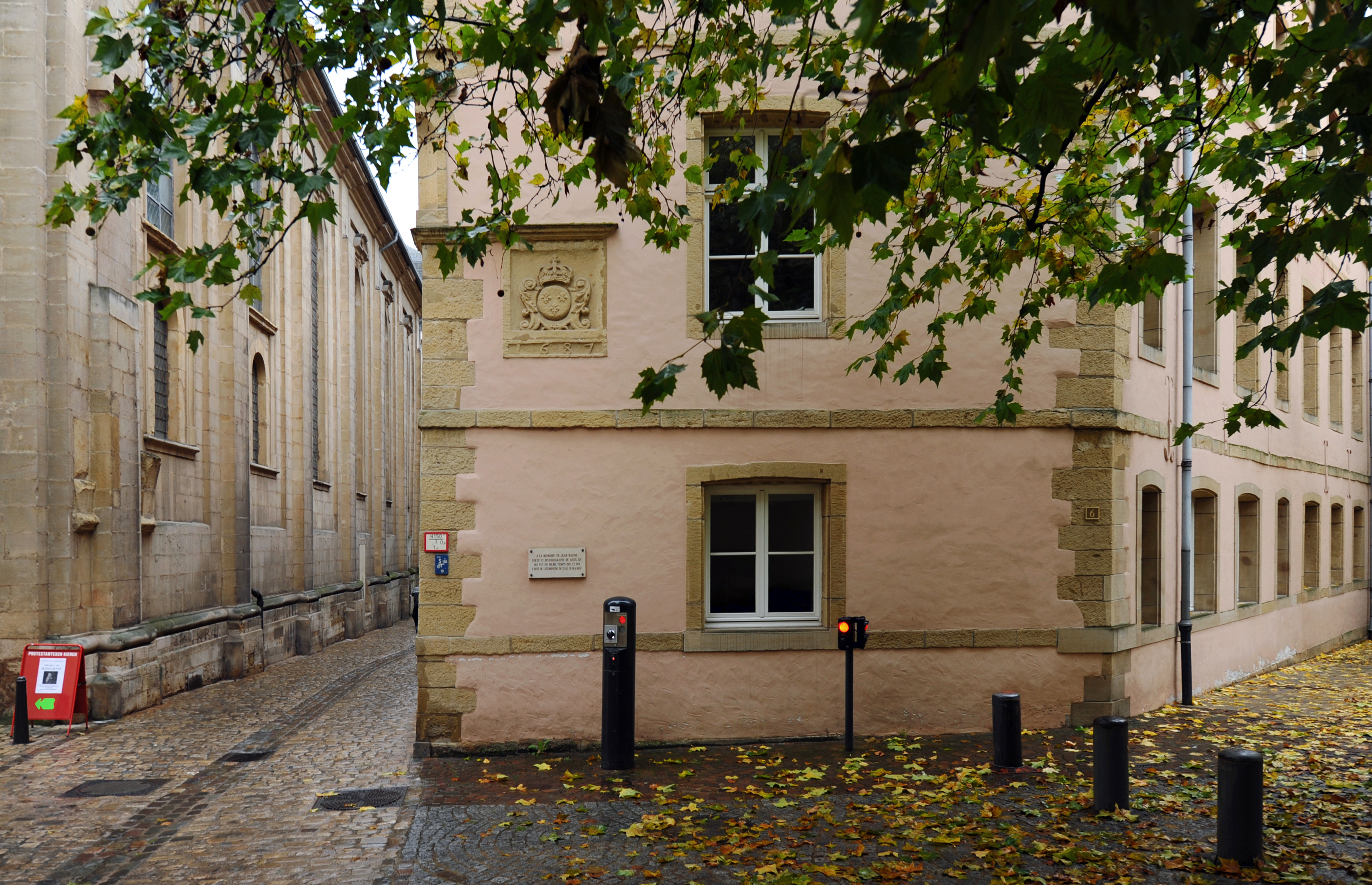 Luxembourg City: the ancient convent of Notre-Dame (later Saint-Sophie) in the centre of Luxembourg City. With the coat of arms of Louis XIV and a plaque commemorating the stay of the Sun-King and Jean Racine in Luxembourg in 1687.